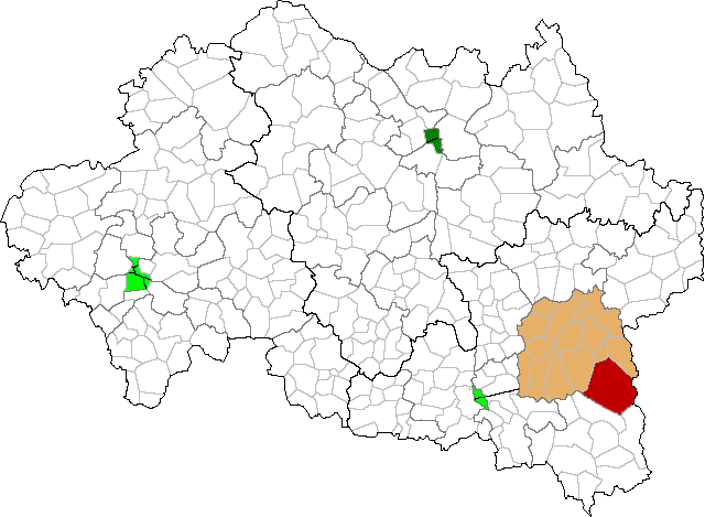 Arfuelha and the canton of La Paliça